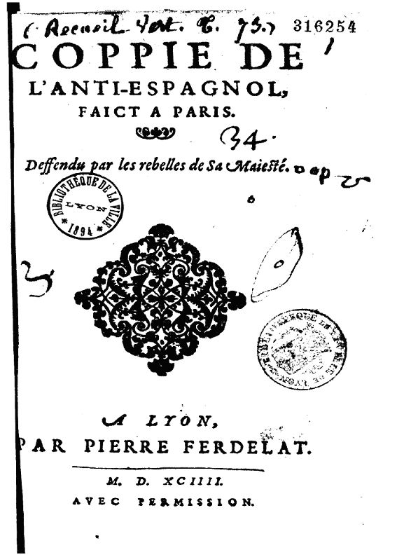 Cover of pamphlet Coppie de l'Anti-Espagnol (The Coppie of the Anti-Spaniard), 1594